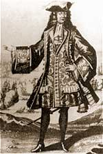 Dutch Lieutenant Admiral Philips van Almonde